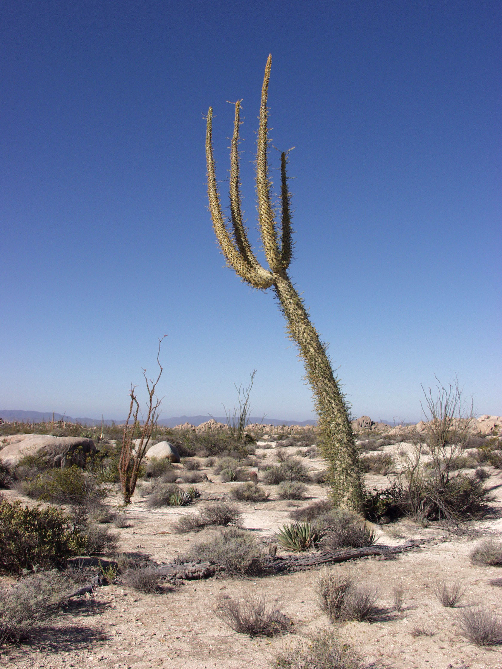 Boojum tree (Fouquieria columnaris), taken at the Baja California Peninsula, Cataviña region, Mexico